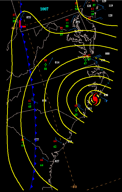 Reconstructed Weather Map of the Gale of 1878 in North Carolina